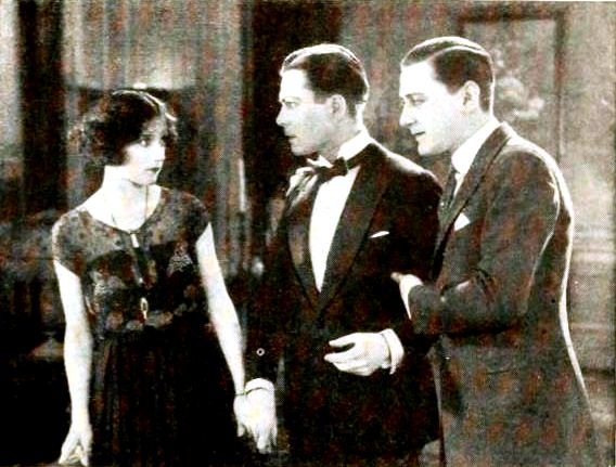 Still from the American film The Primitive Lover (1922) with Constance Talmadge, Harrison Ford, and Kenneth Harlan, on page 53 of the July 1922 Photoplay.